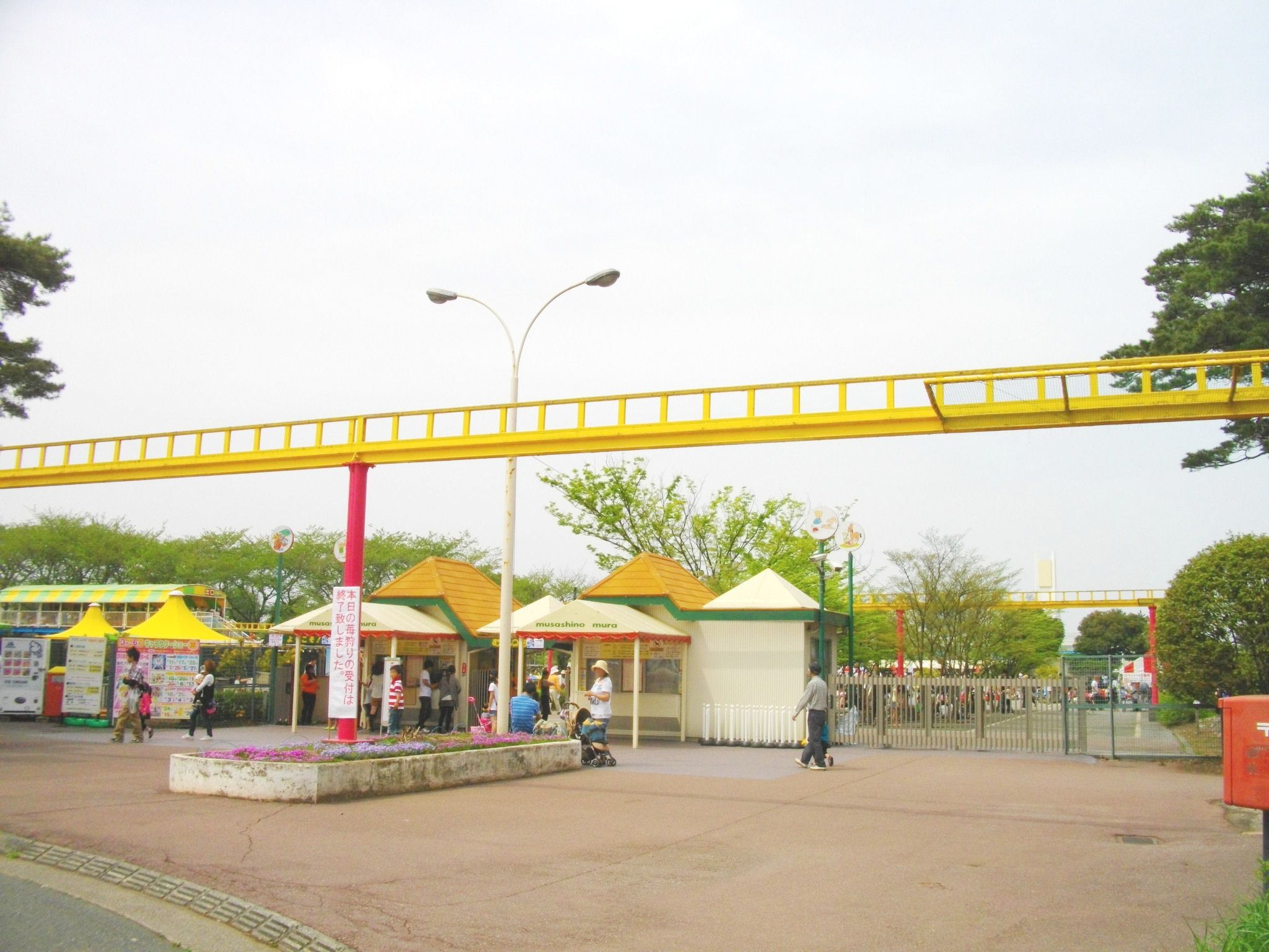 Musashino-mura